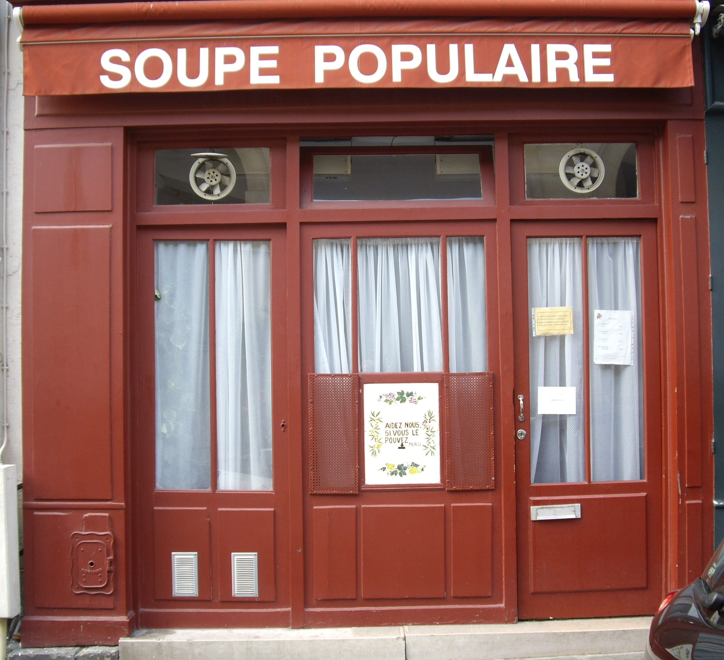 A soup kitchen in Rue Clément, Paris 6th.